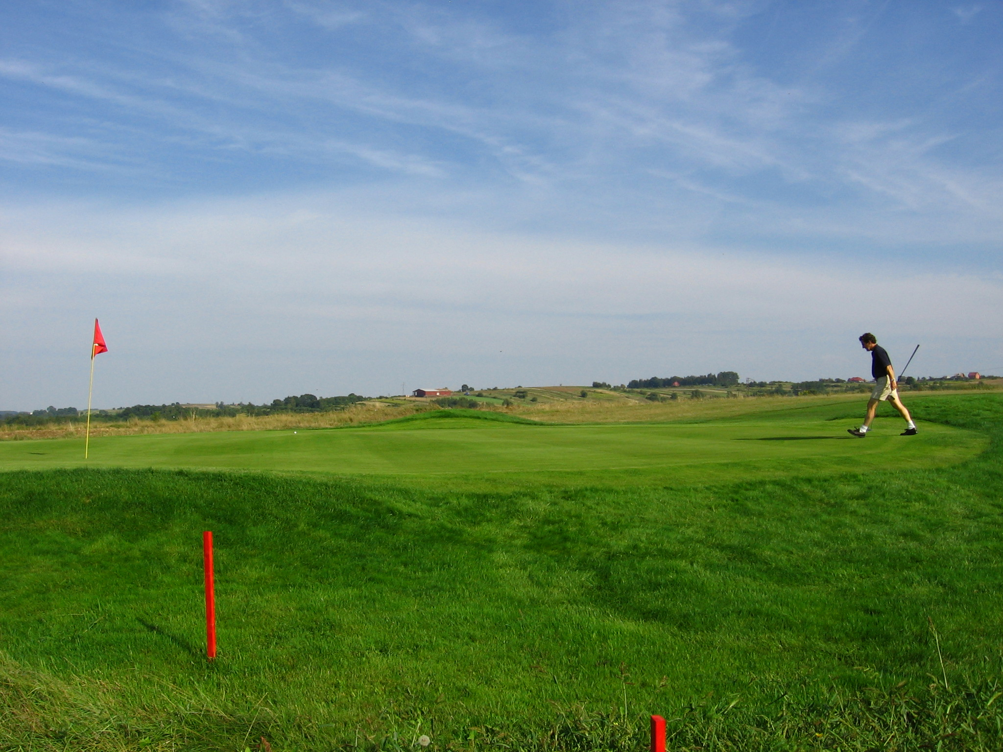 Green of the third hole par 3 on the Royal Kraków Golf & Country Club in Ochmanów.